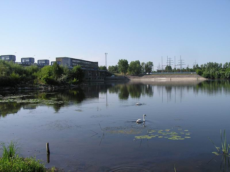 Water power plant located in Debe near Warsaw in Poland.